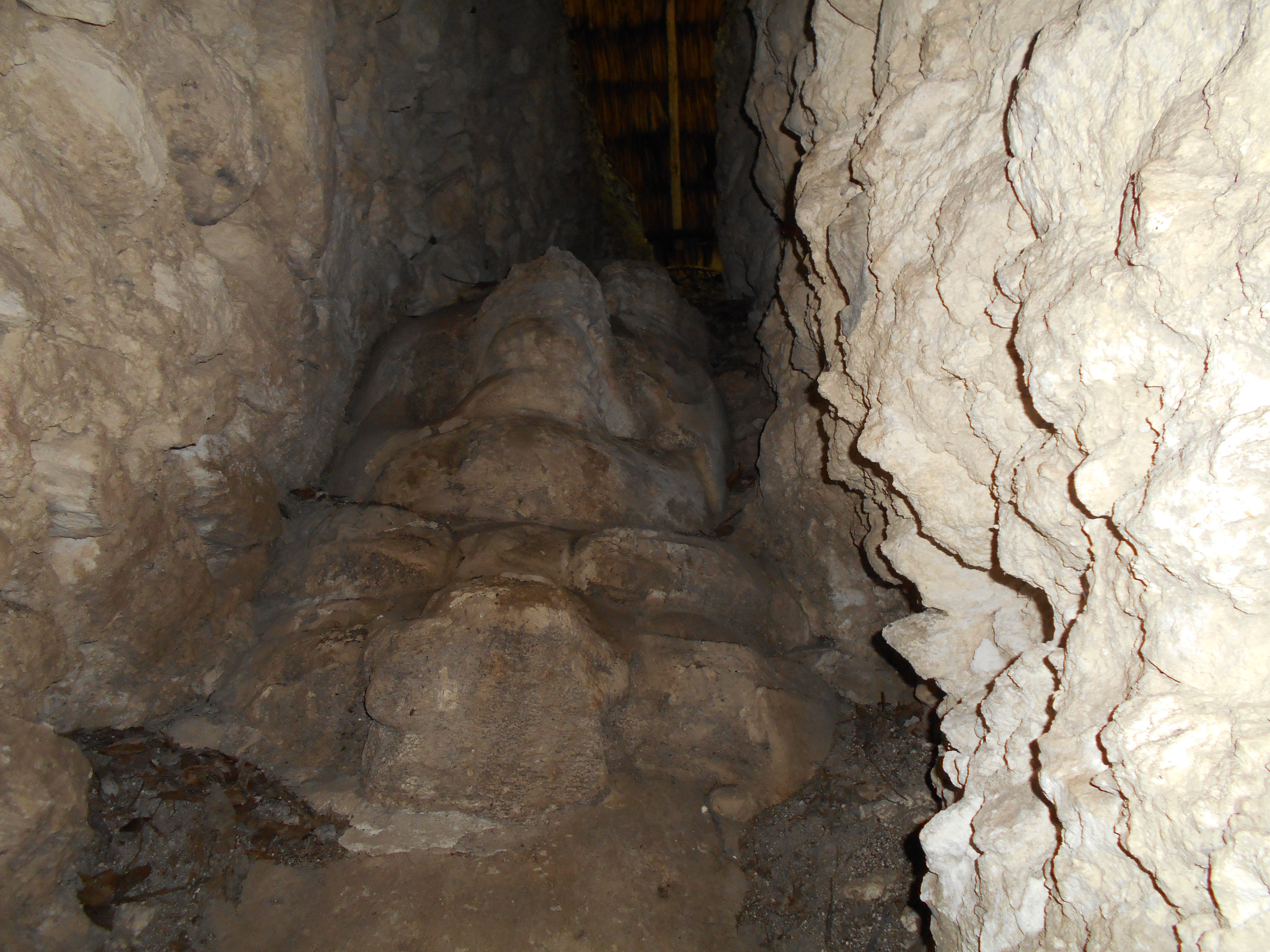 Classic period Maya ruins of Holtún in the Petén department of Guatemala.